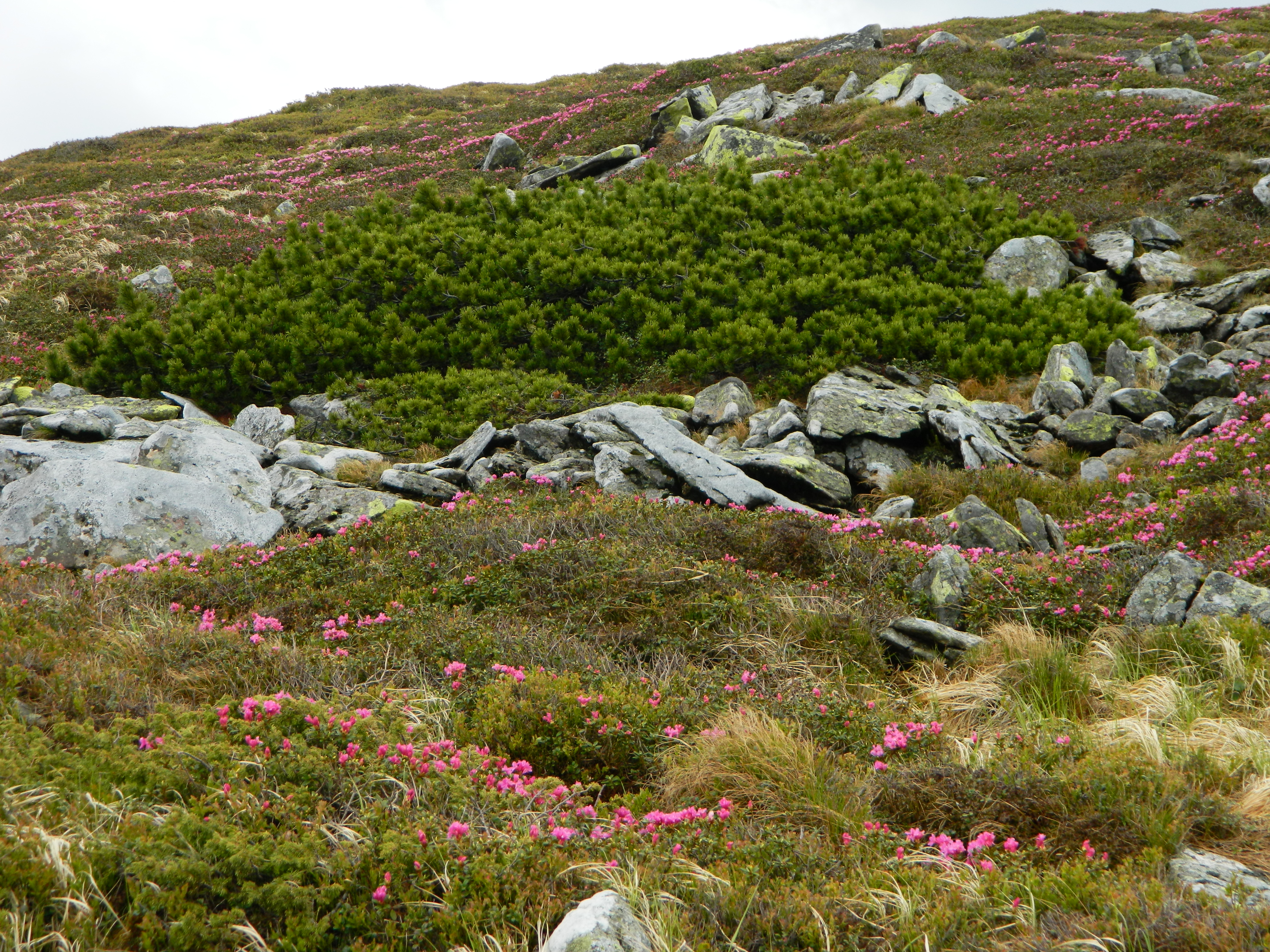 Small growth of Pinus mugo on the Chornohora range between stones and flowering Rhododendron Kotschyi